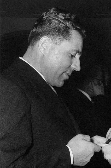 Achille Compagnoni at the world premire of the movie K2, a documentary that reconstructs the great challenge that saw Compagnoni and Lino Lacedelli driving the Italian flag on the peak of K2 Mount, on 1954, July 31. Rome (Italy), 25 March 1955.